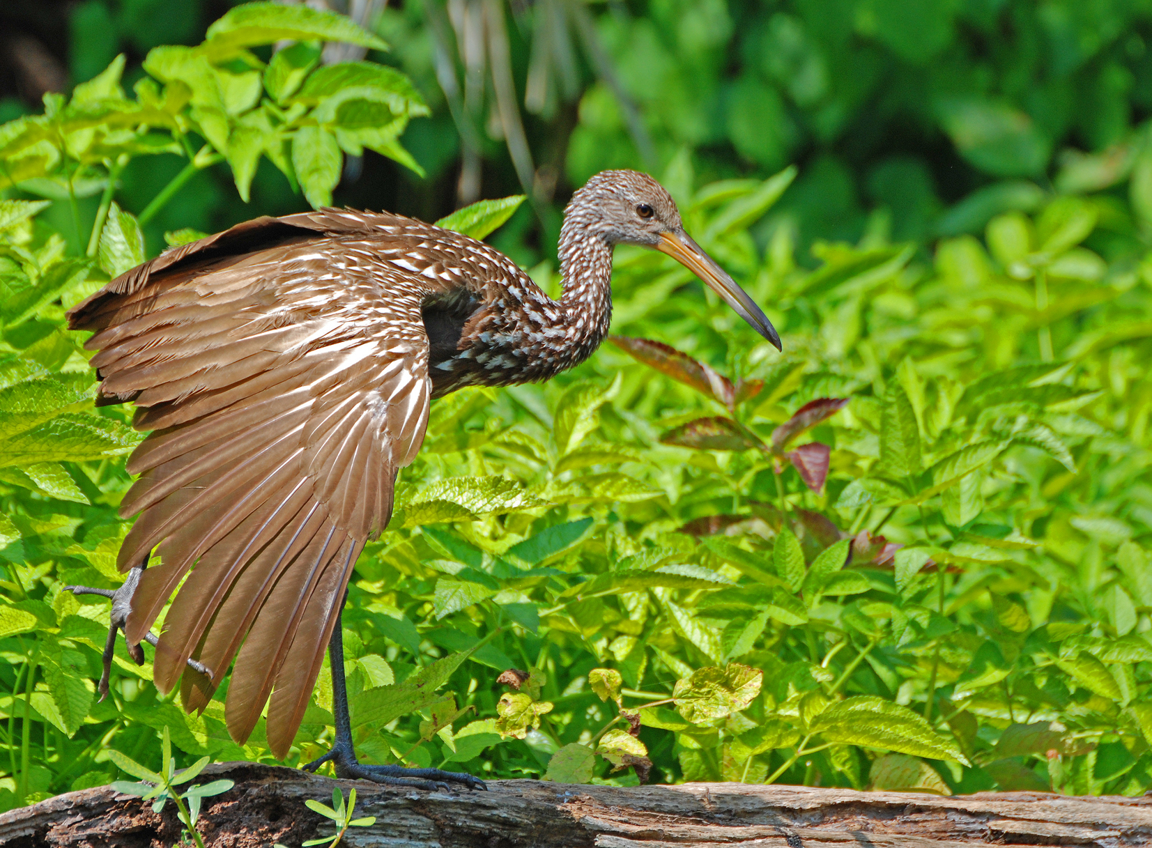 Limpkin stretching its wing